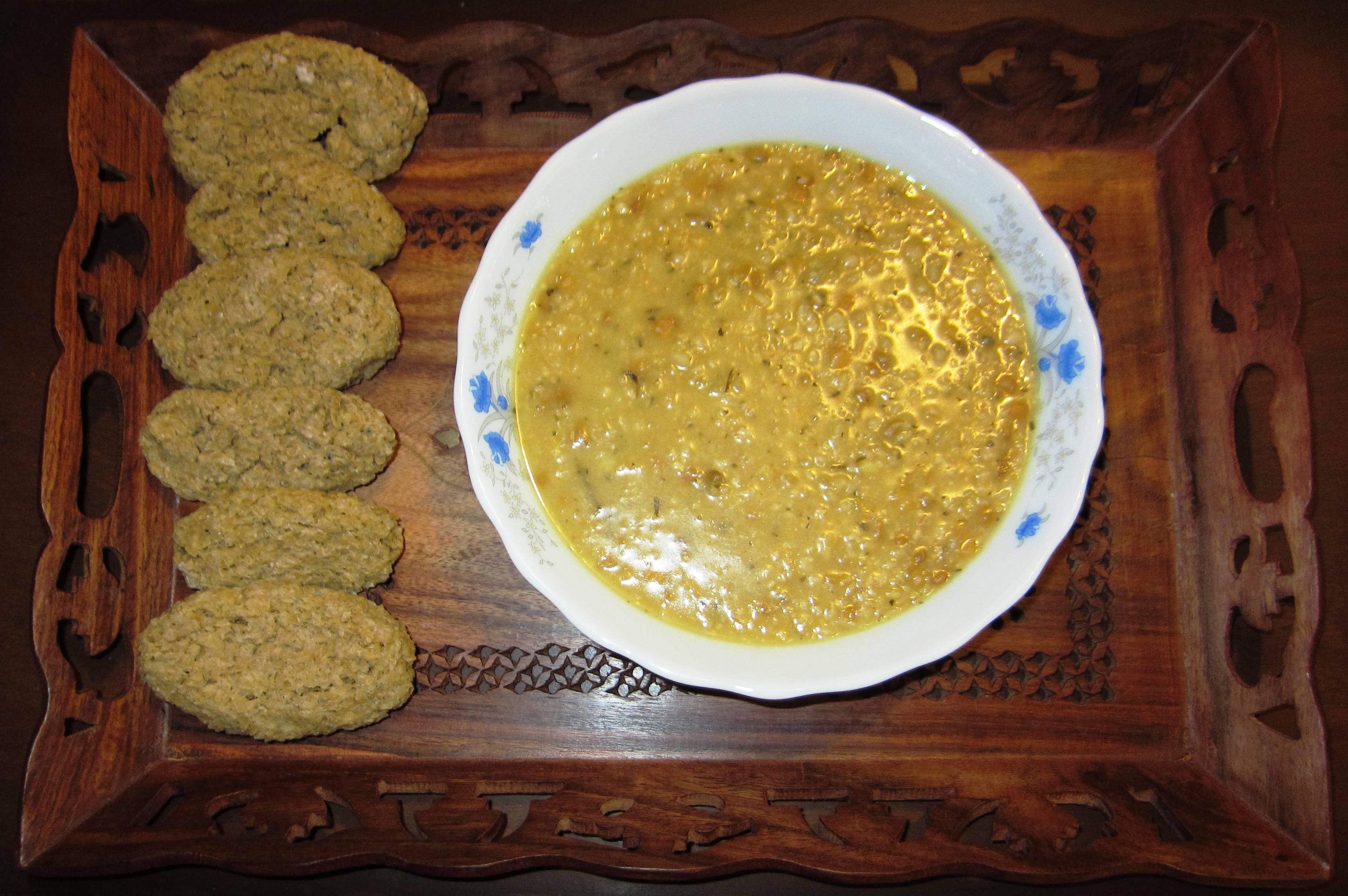 Tarkhineh (Tarhana) as cooked in Malayer, Iran. Solid Tarkhineh (left), ready to eat Tarkhineh (right).